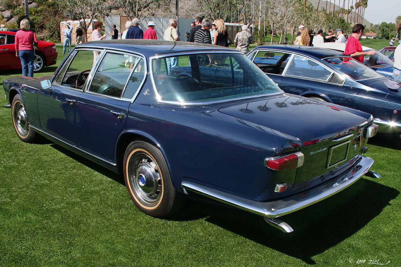 1967 Maserati Quattroporte 1, Series II. 2008 Desert Classic Concours d'Elegance in Palm Springs, California.